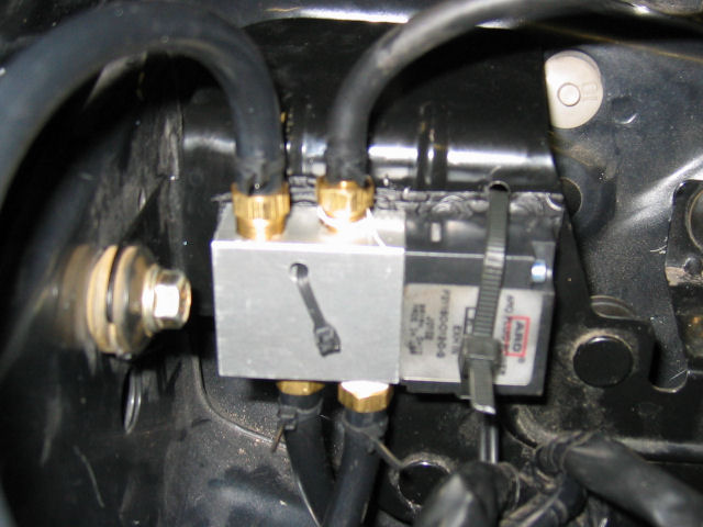 ARO brand 4-port pneumatic solenoid installed in a 2004 USDM Subaru Impreza WRX STI to control a dual port Tial 44mm external wastegate for a Garrett GT30 turbocharger. Control is provided by the Subaru Denso factory supplied engine control unit using a PID algorithm. This part was purchased from Grainger.